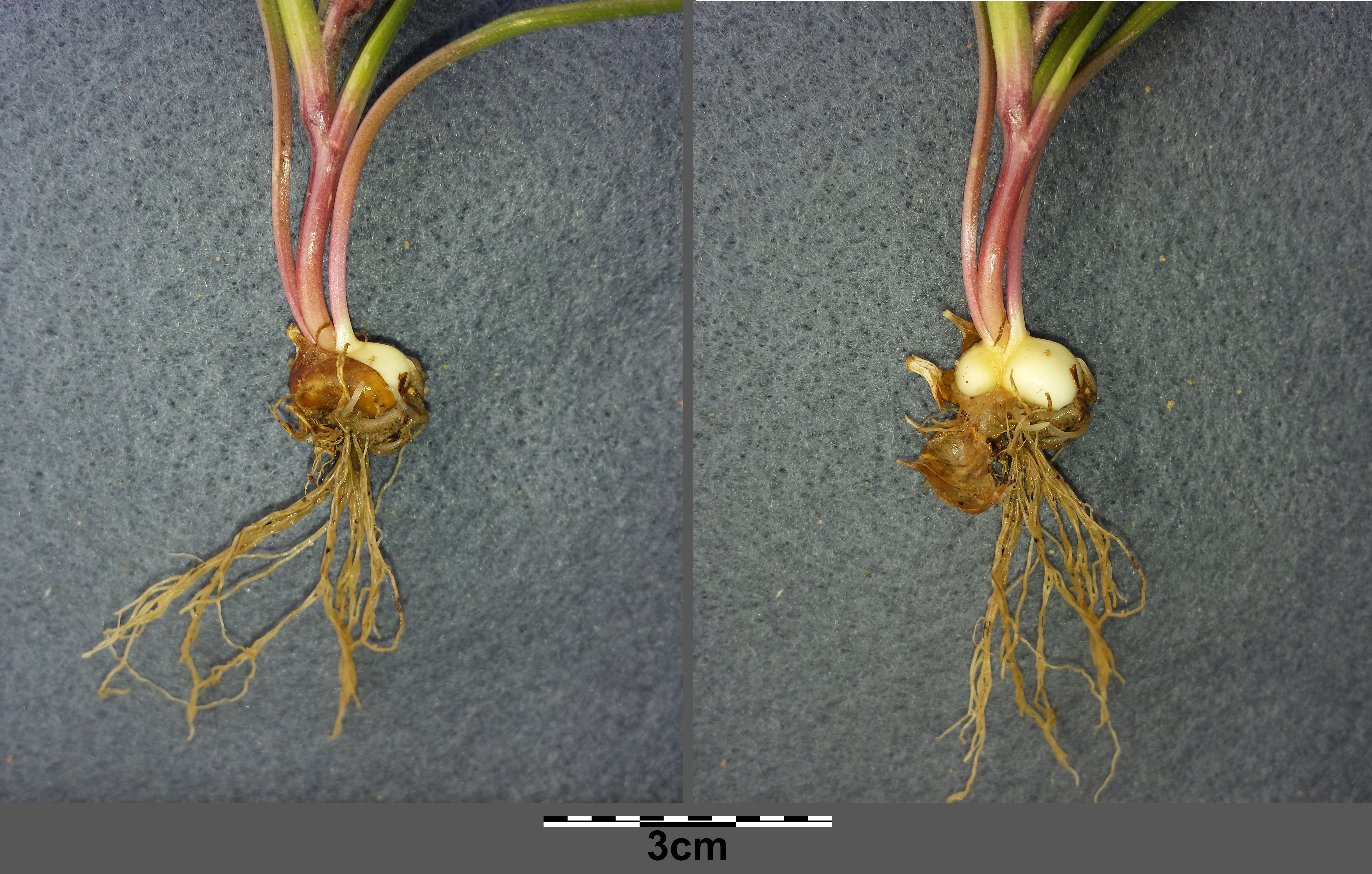 Bulbs, on the right picture coat removed Taxonym: Gagea villosa ss Fischer et al. EfÖLS 2008 ISBN 978-3-85474-187-9 Location: near Manhartsbrunn, district Mistelbach, Lower Austria - ca. 250 m a.s.l. Habitat: field